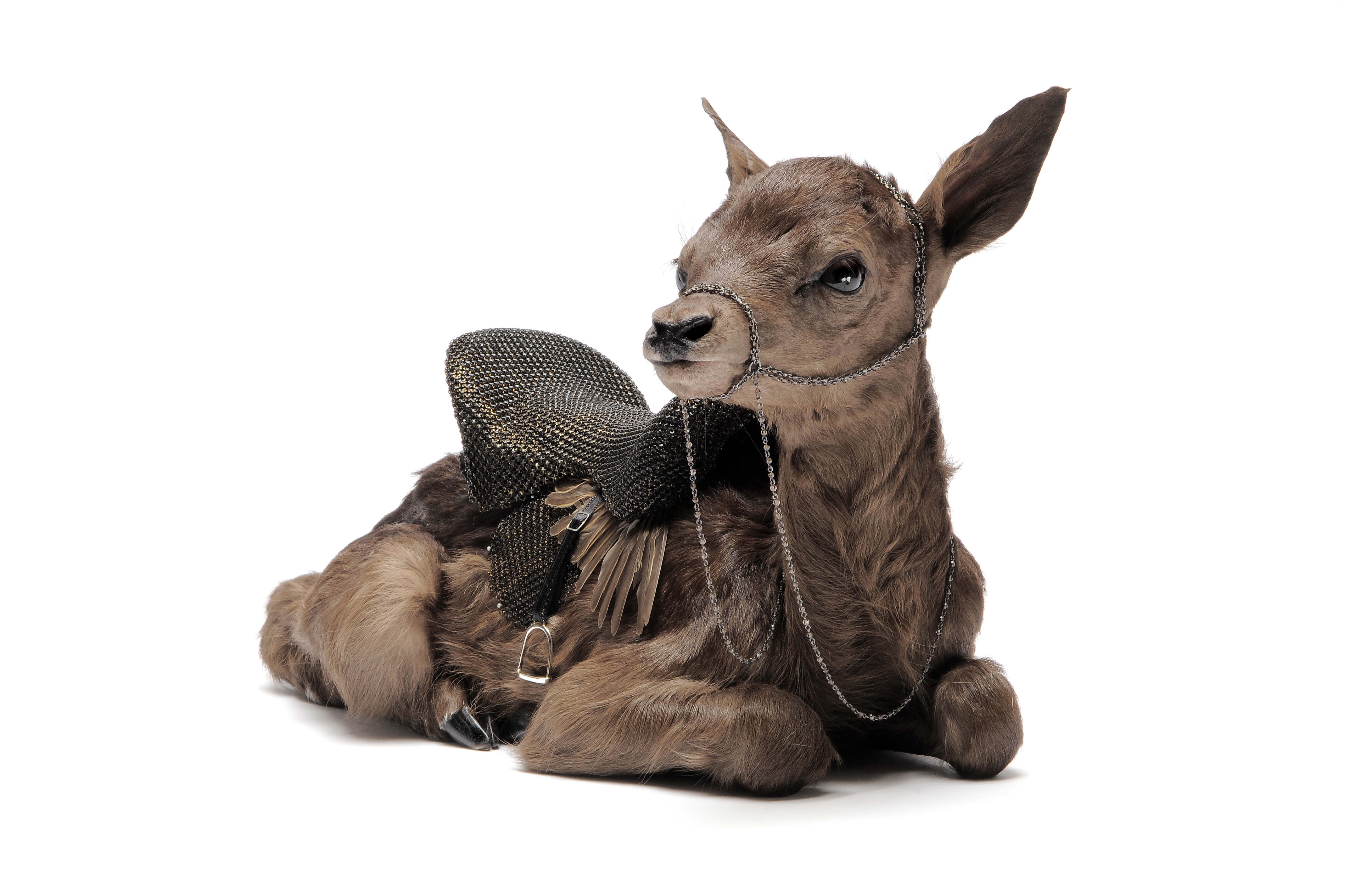 A sculpture by taxidermist, jeweller and artist Julia deVille from her 2010 exhibition 'Night's Plutonian Shore' at Sophie Gannon Gallery - Melbourne, Australia